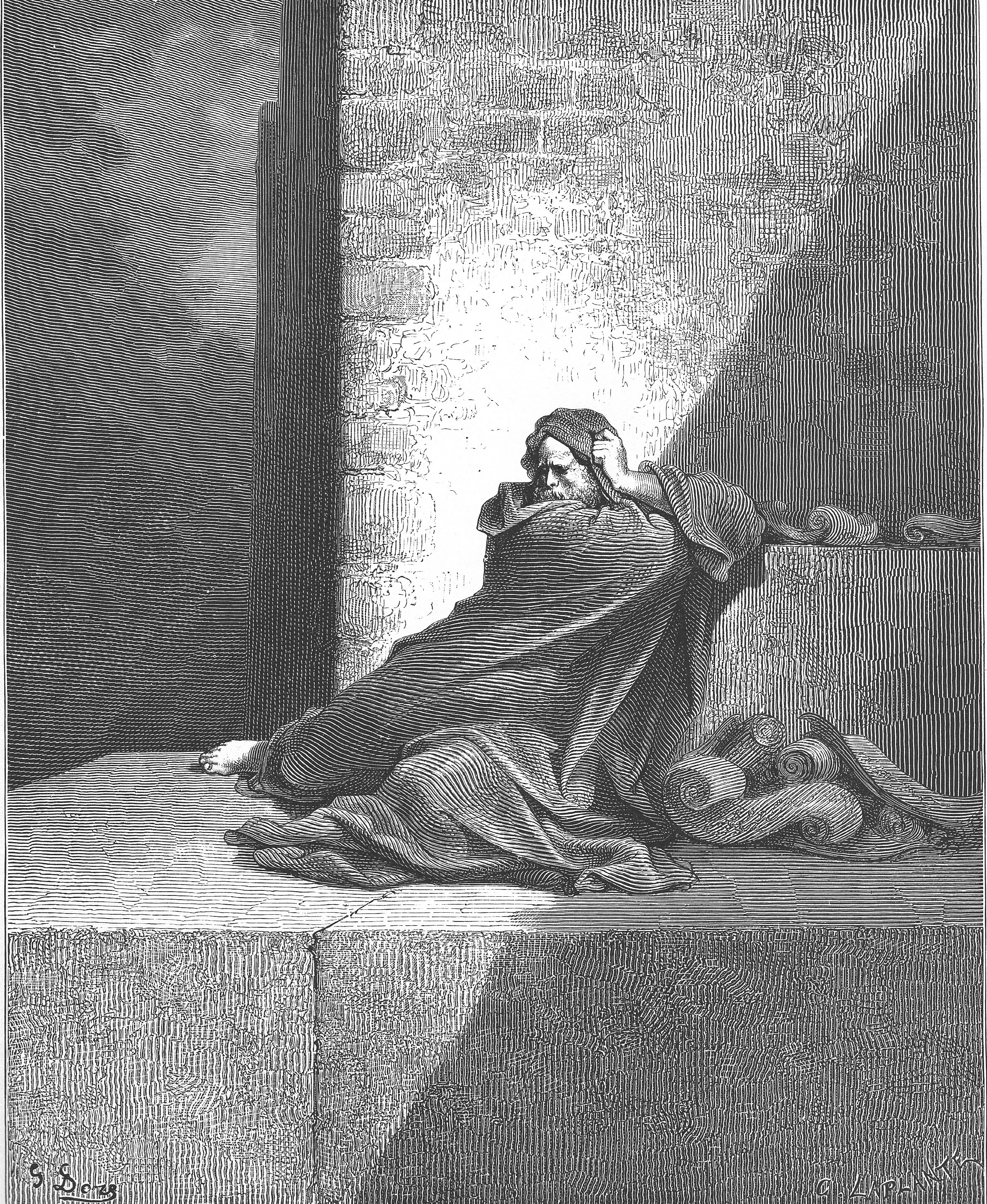 The Prophet Baruch (Bar. 1:1, 2:1-23)